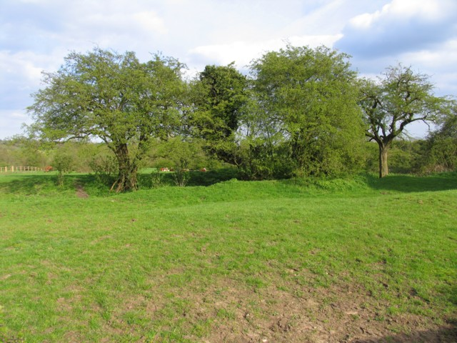 More earthworks.